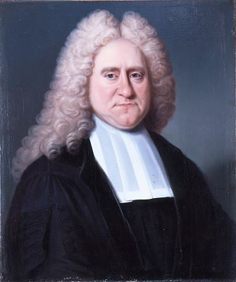 Cornelis van Eck (1662-1732), laws professor from the Dutch Republic.